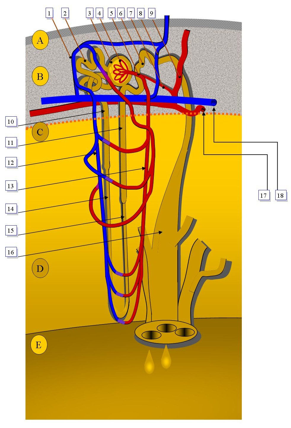 JUXTAMEDULLARY NEPHRON A. Renal capsule B. Cortex C. Corticomedullary junction D. Medulla E. Minor calyx 1.) Peritubular capillaries 2.) Proximal convoluted tubule 3.) Bowman's capsule 4.) Glomerulus 5.) Efferent arteriole 6.) Distal convoluted tubule 7.) Afferent arteriole 8.) Interlobular vein 9.) Interlobular artery 10.) Thick descending limb of Loop of Henle 11.) Thick ascending limb of Loop of Henle 12, 13.) Vasae recti 14.) Thin descending limb of Loop of Henle 15.) Thin ascending limb of Loop of Henle 16.) Collecting duct 17.) Arcuate artery 18.) Arcuate vein.